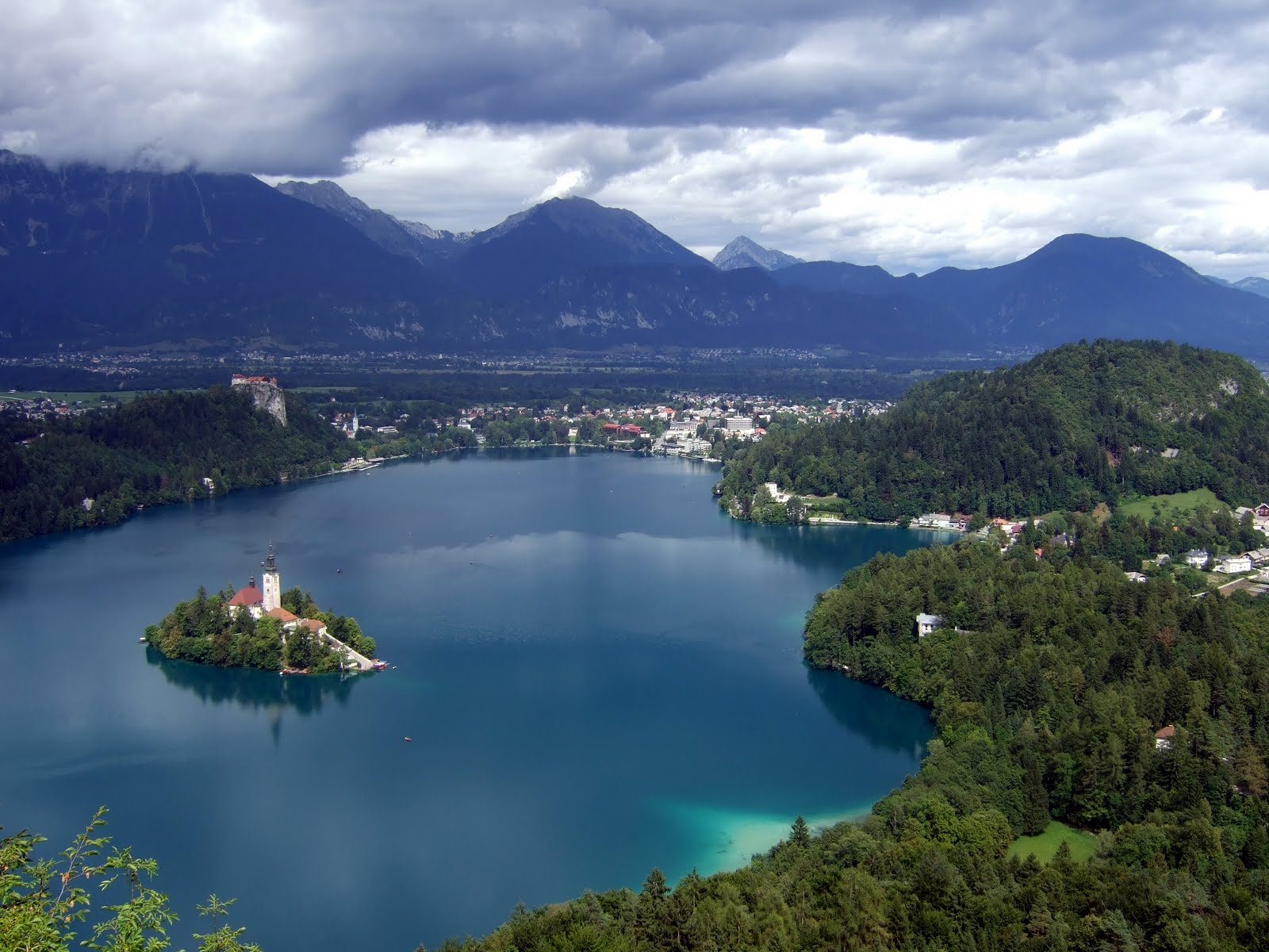 Lake Bled